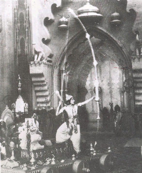 Rama wielding Kothandam at Seetha's Swayamwaram - A Scene from 1934 Tamil film "Seetha Kalyanam". Film was produced by Prabhat Film Company.